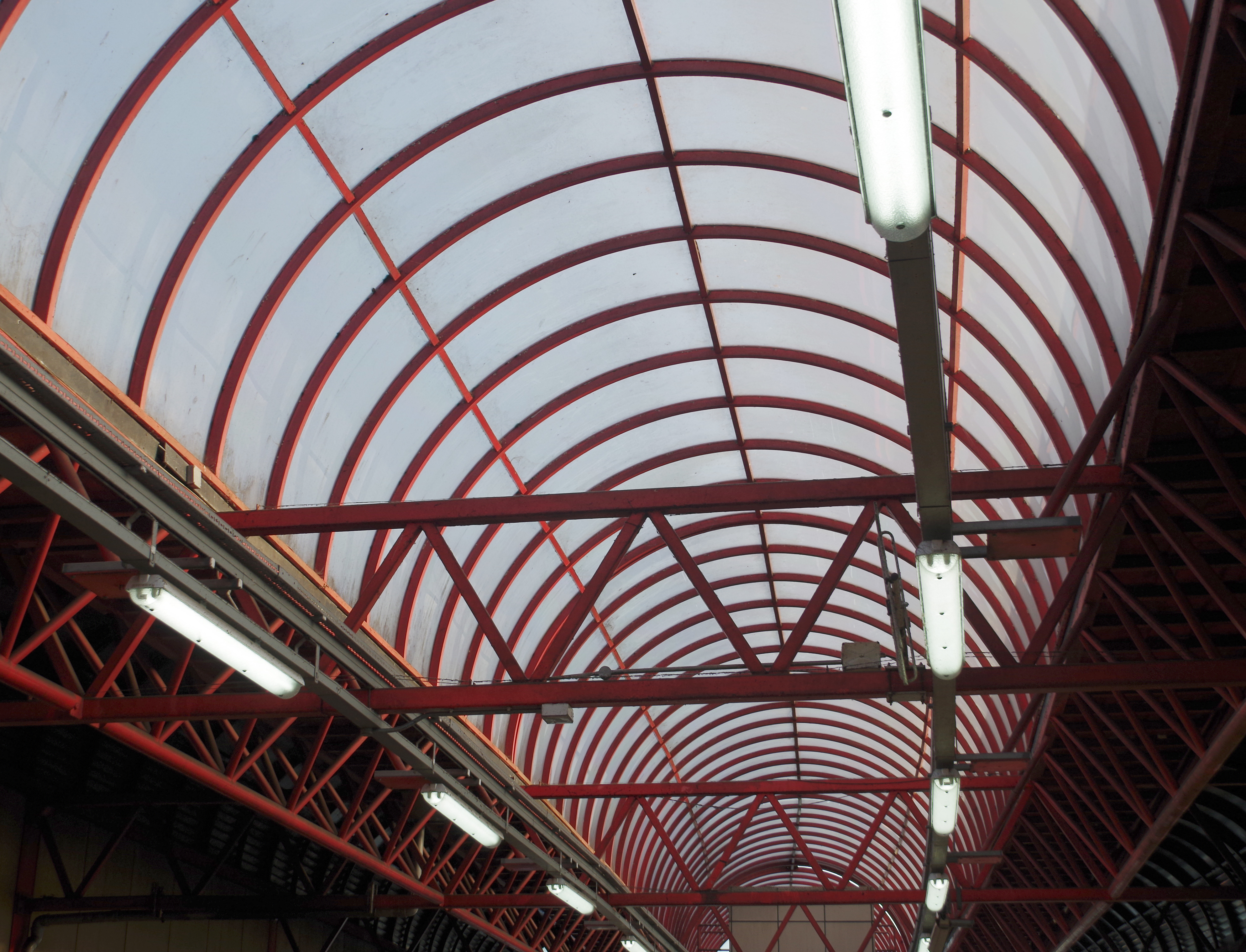 The roof of the through platforms at Portsmouth & Southsea railway station.